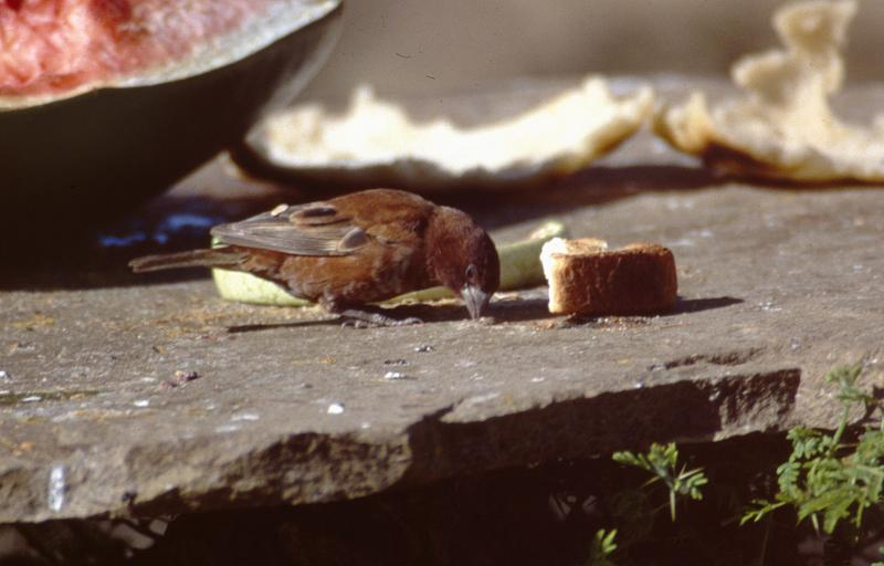 A male Chestnut Sparrow feeding in Kenya.